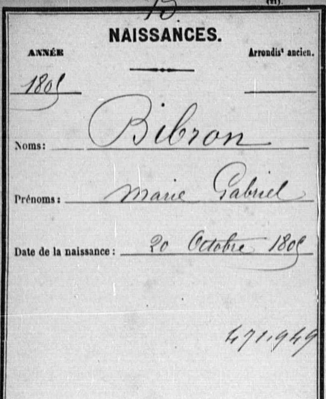 Birth of Marie Gabriel Bribon